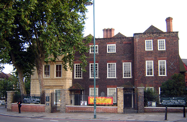 Sutton House, Hackney, London 19 September 2005. Photographer: Fin Fahey. Ralph Sadleir's home. (The oldest house in Hackney)